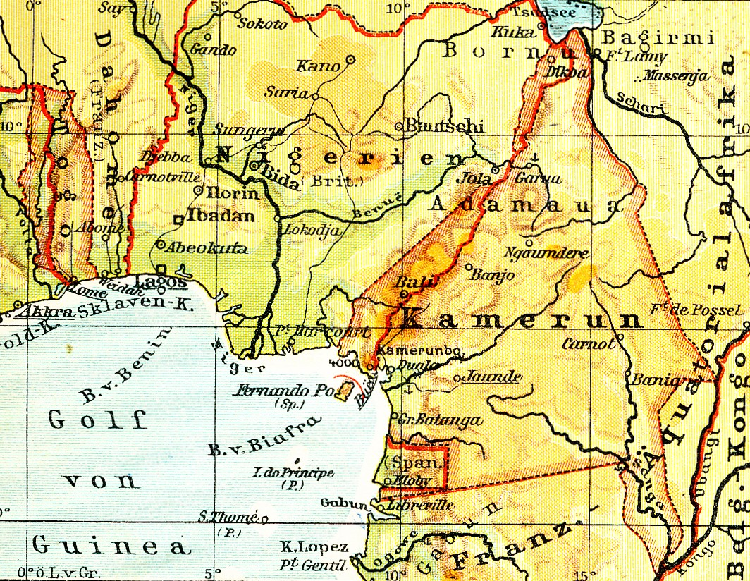 This is a part of an old atlas. It does not necessarily represent the current situation.